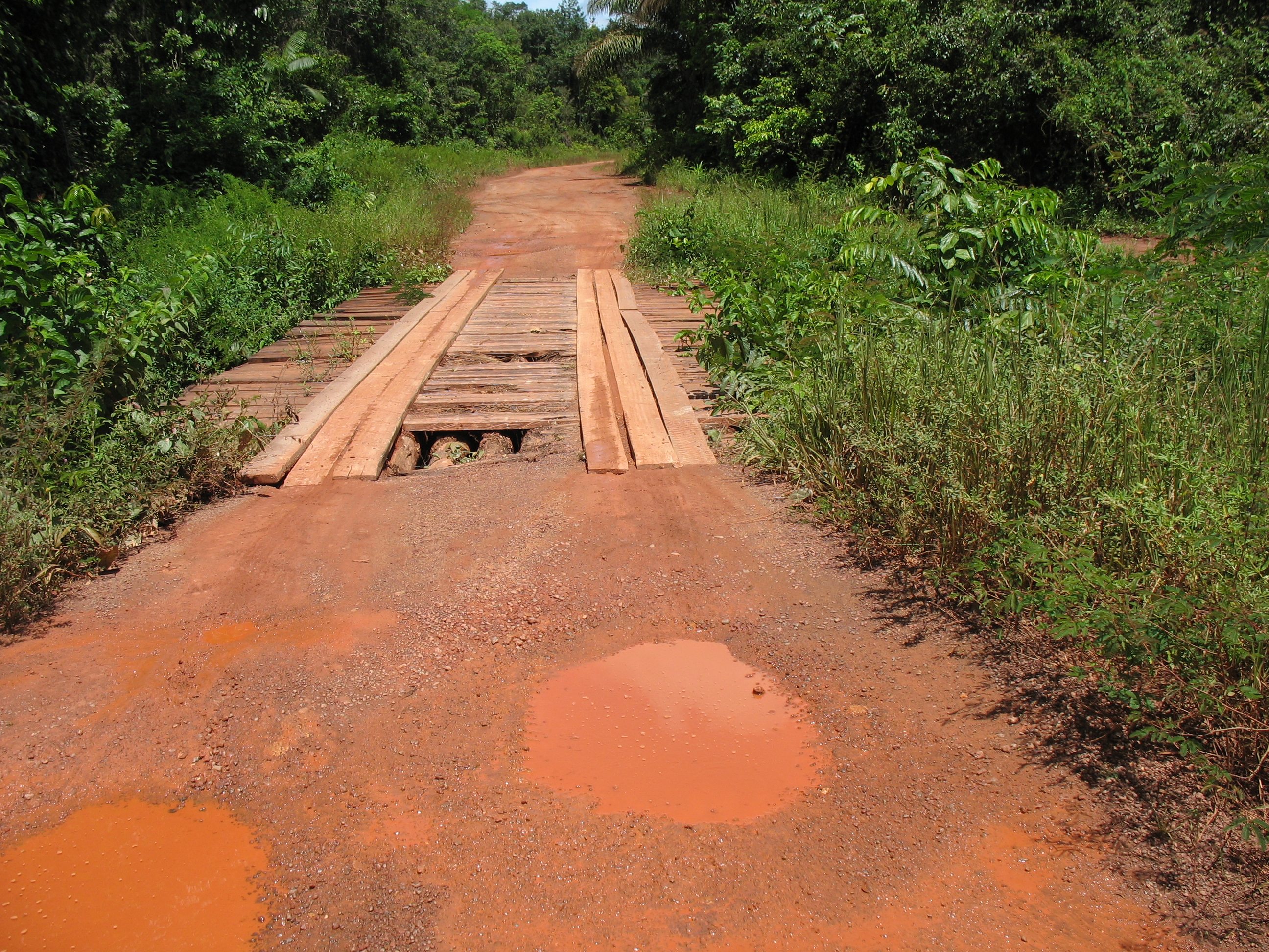 Primary road between Paramaribo and Brownsweg. Photo taken in May 2007.Not home 18:45, 18 June 2007 (UTC)